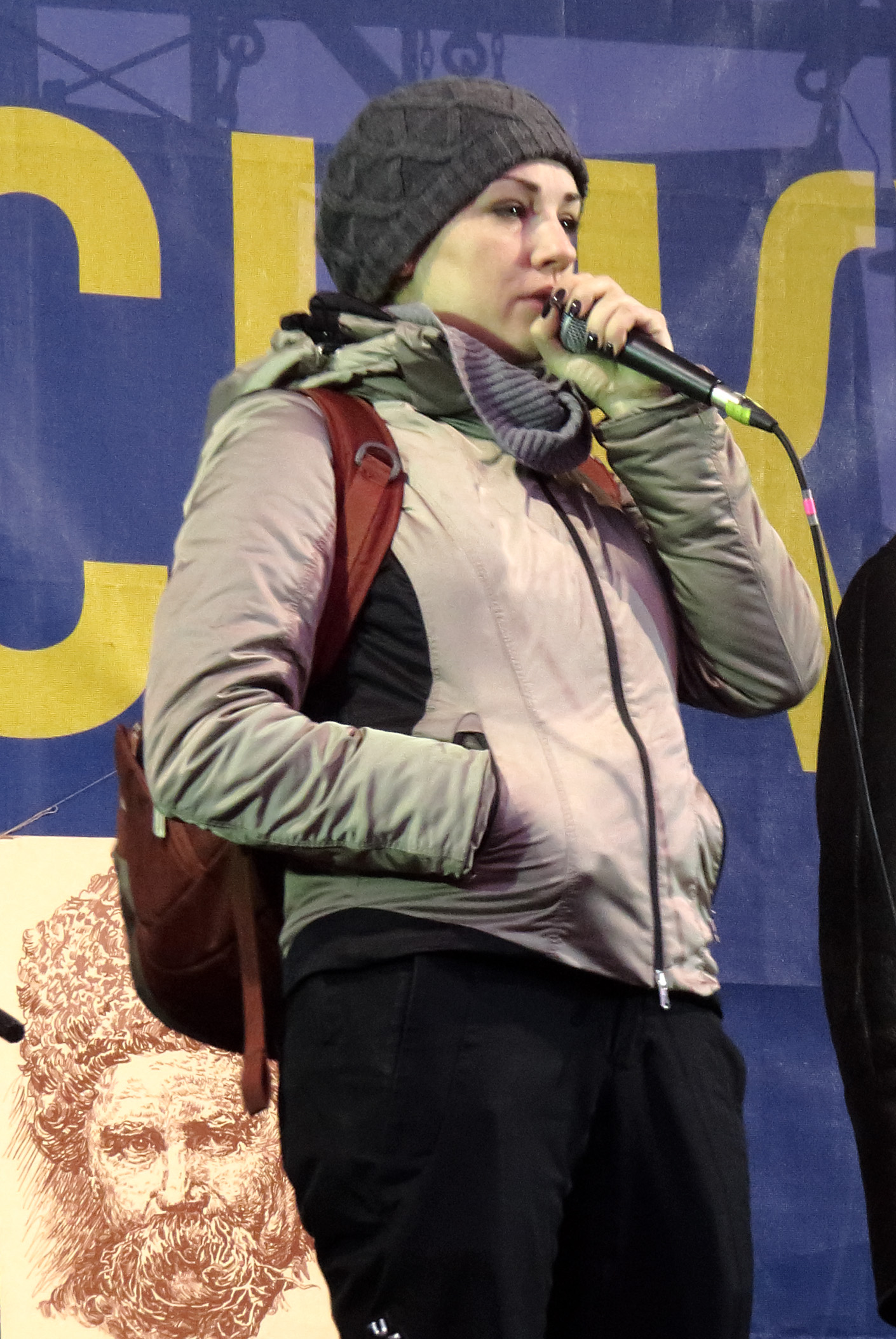 Member of Verkhovna Rada (Ukrainian parliament) Lesya Orobets at the Euromaidan in Kyiv